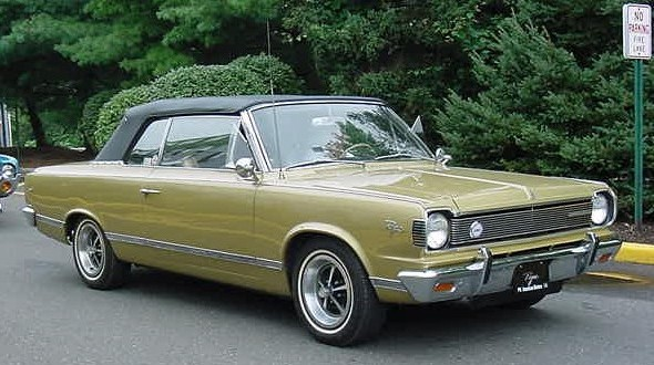 1967 Rambler American Rogue (this was the top of the line model) a compact-sized convertible built by American Motors Corporation (AMC). Finished in tan metallic with the standard power-operated top in black fabric. It also has AMC's "Magnum 500" styled steel wheels that were a popular factory option/accessory. This picture taken at the AMCRC (AMC Rambler Club) car show that was held in Somerset, New Jersey, during August 8 and 9, 2003.